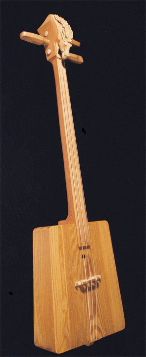 Doshpuluur made by Marat Damdyn Photo by Johanna Kovitz, Boston, MA. May 2007